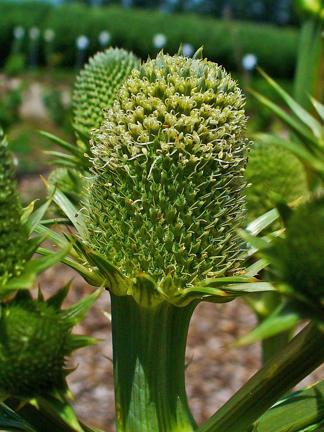 Eryngium yuccifolium, Apiaceae, Button Snake-root, Rattlesnake Master, inflorescence. The root is used in homeopathy as remedy: Eryngium aquaticum (Ery-a.)